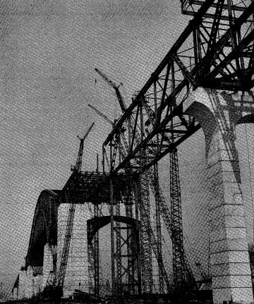 Construction on the Burlington Bay Skyway, connecting Burlington with Hamilton, Ontario, in 1958. The bridge today carries 8 lanes of traffic between Toronto and Niagara Falls along the Queen Elizabeth Way over both this bridge, as well as a second constructed in the mid eighties.